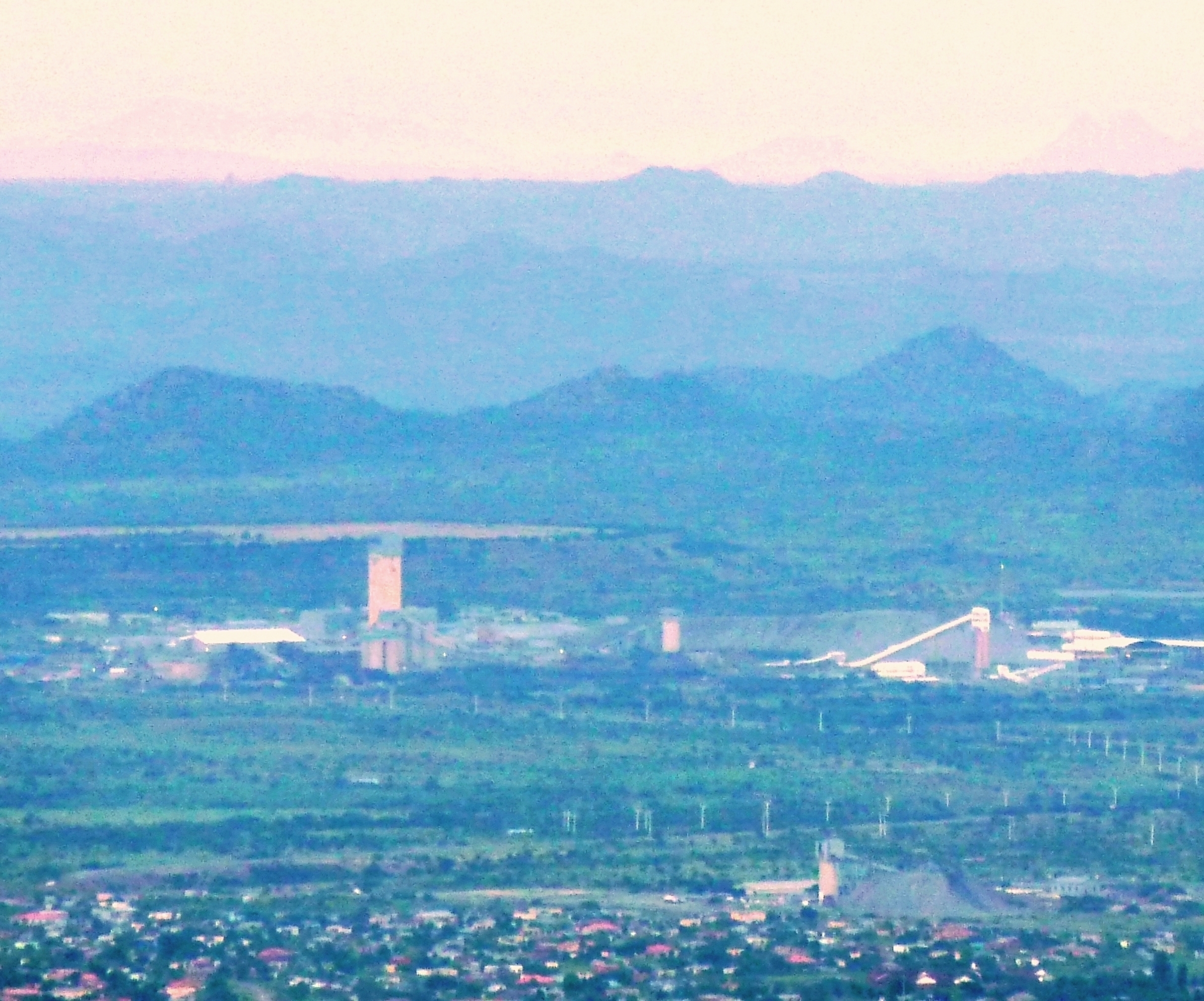 The Eastern Platinum Concentrator (EPC) of Lonmin platinum mine east of Marikana, North West, South Africa, as seen from Dewetsnek on the Magaliesberg. The townships of Modderspruit and Bapong are visible in the foreground.